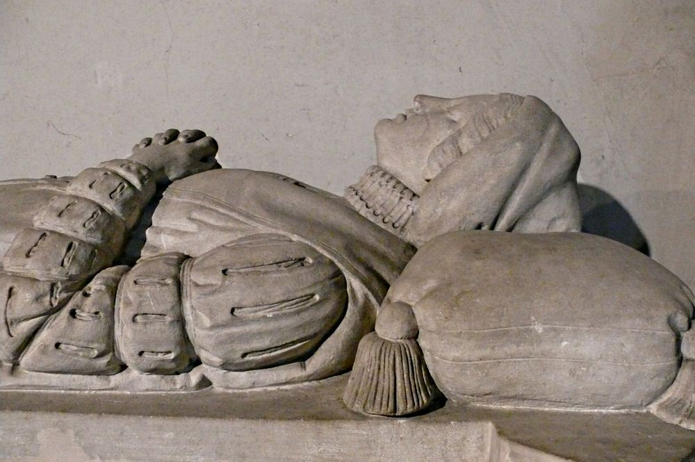 Beatrice of Savoy (1201-1266)